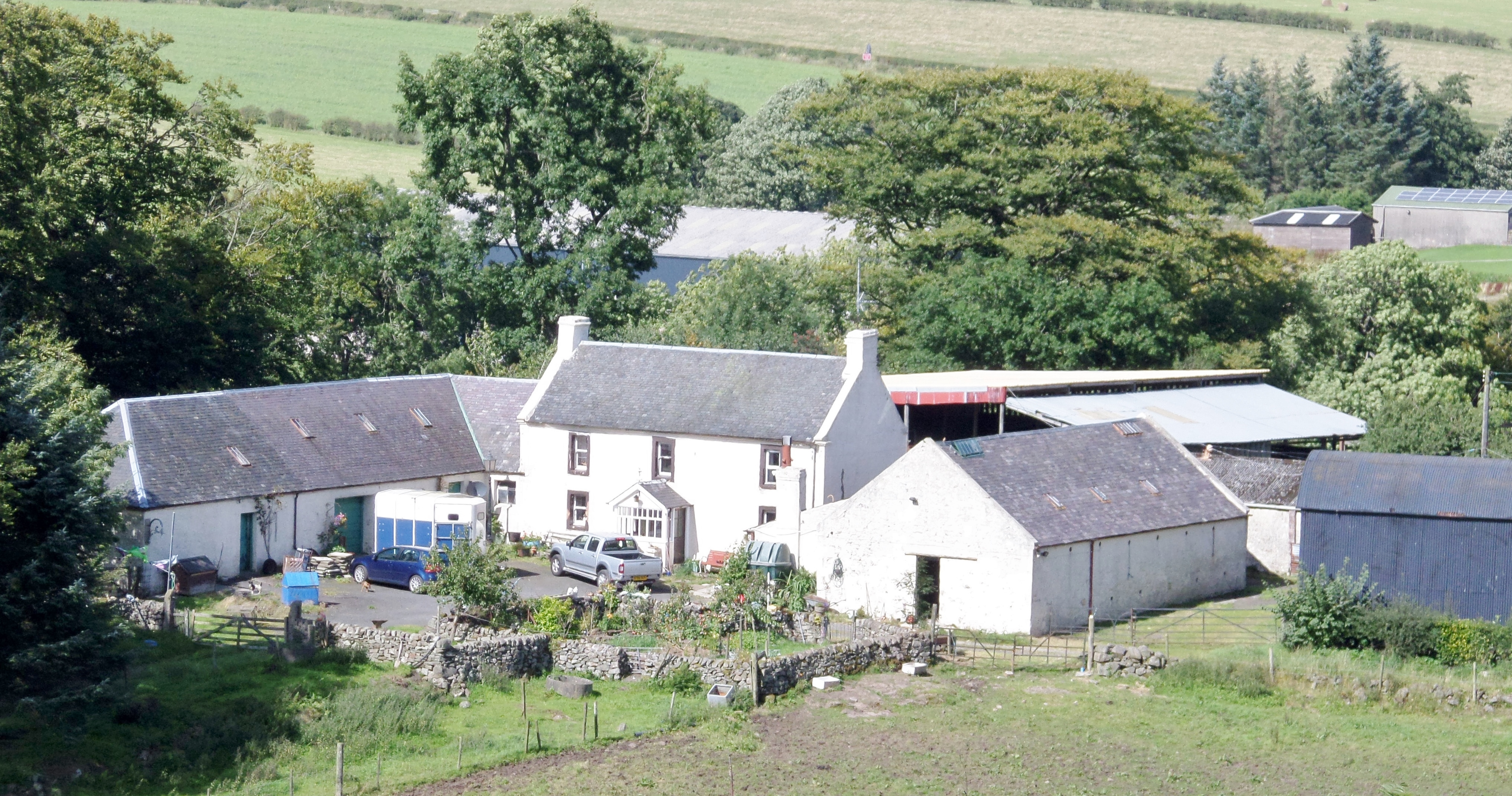 Over Borland Farm, Dunlop, East Ayrshire, Scotland - farm buildings layout